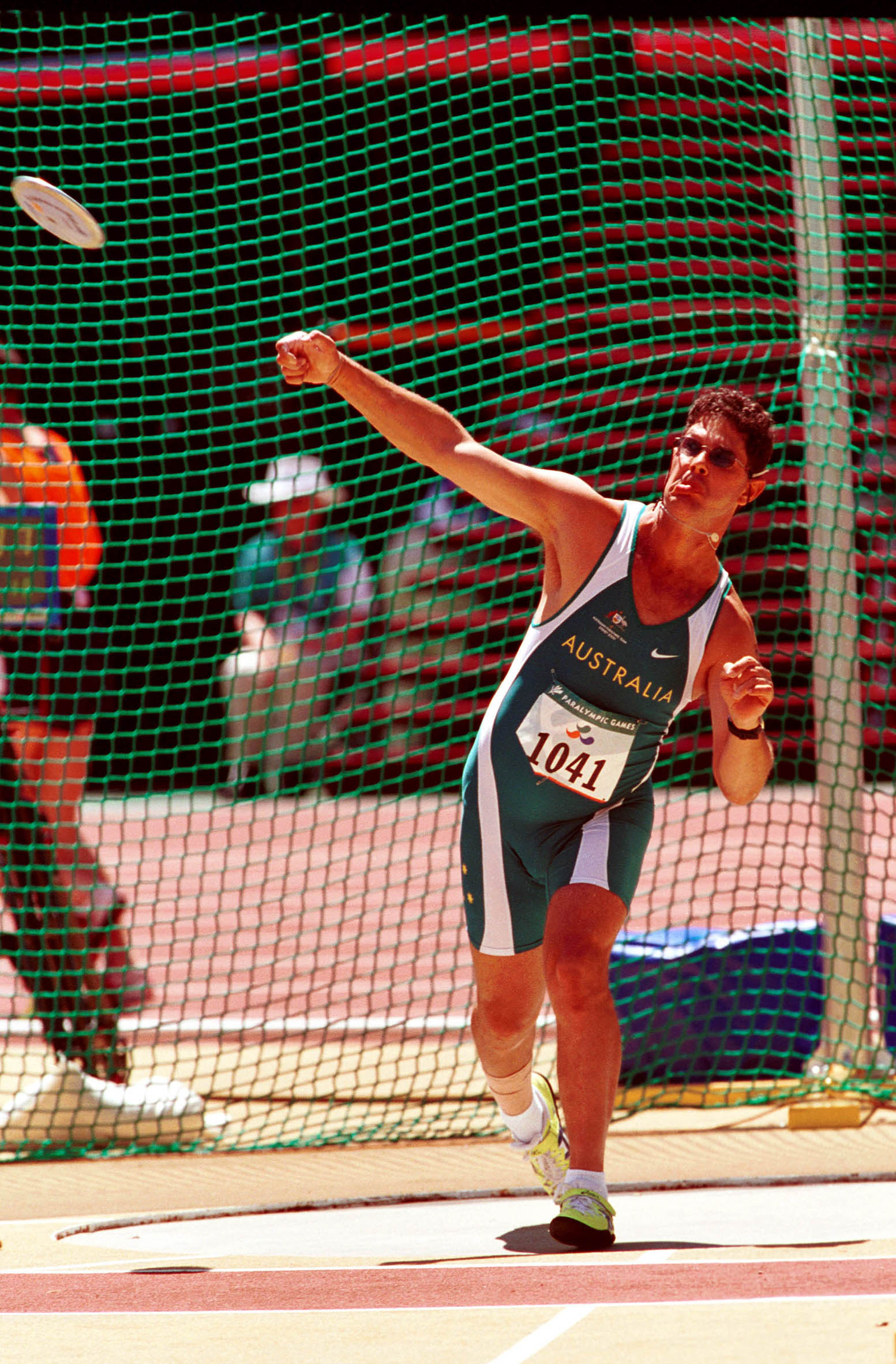 Action shot of Australian field athlete Brian Harvey throwing the discus during discus F38 competition at the 2000 Sydney Paralympic Games, Day 07. Harvey won bronze in this event.